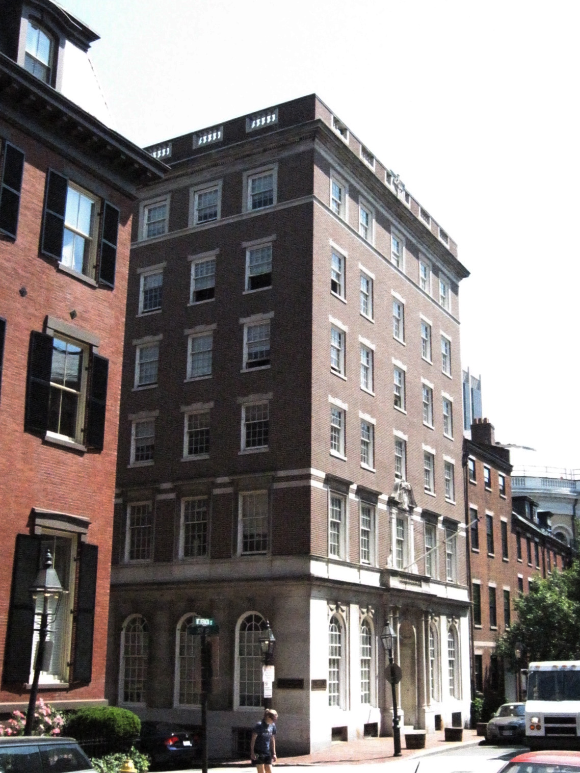 Mt. Vernon St., Boston